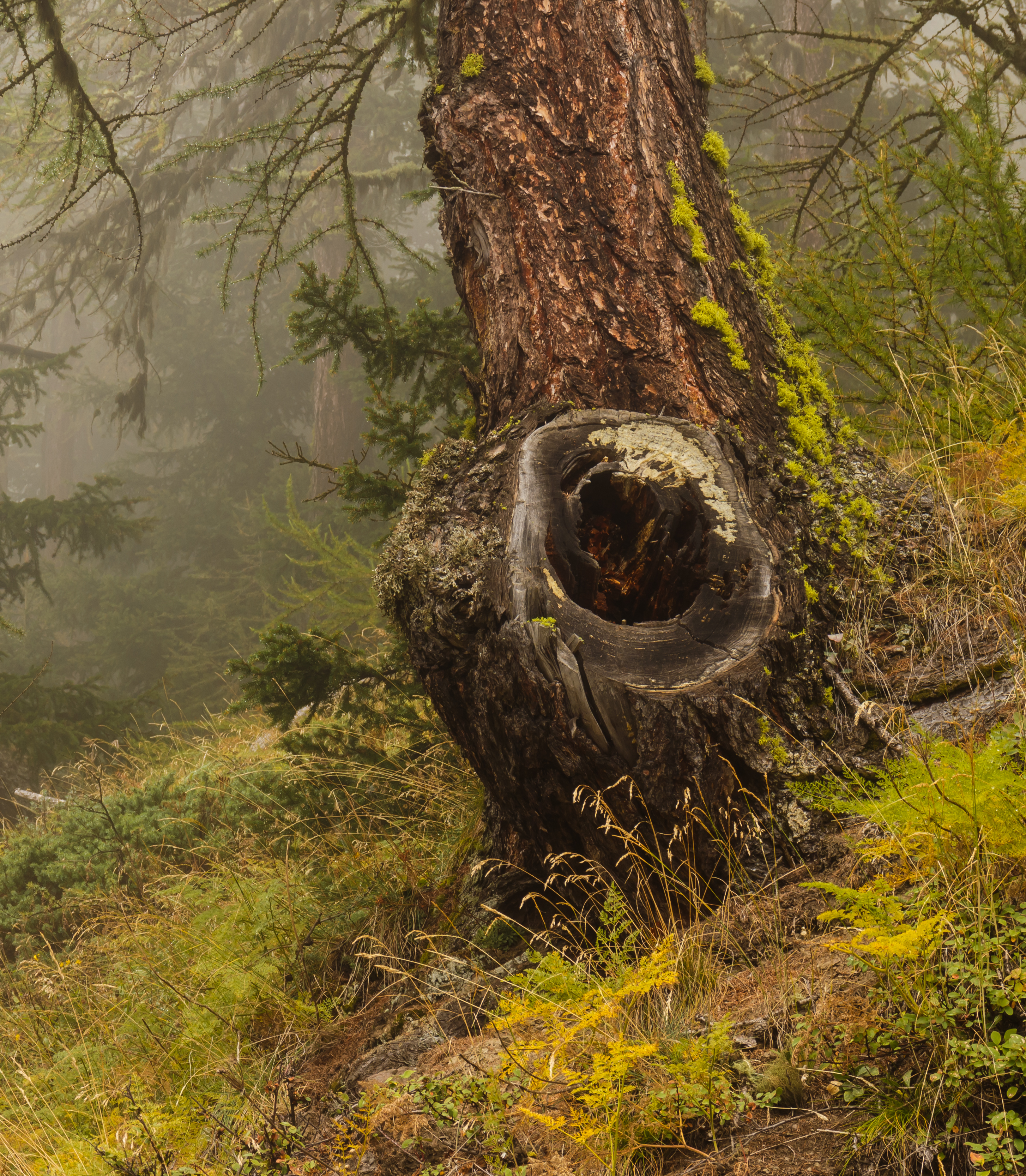 Mountain hiking Vens at Bettex in Valle d'Aosta (Italy). Detail European larch (Larix decidua) with large wound to the trunk in the mist.